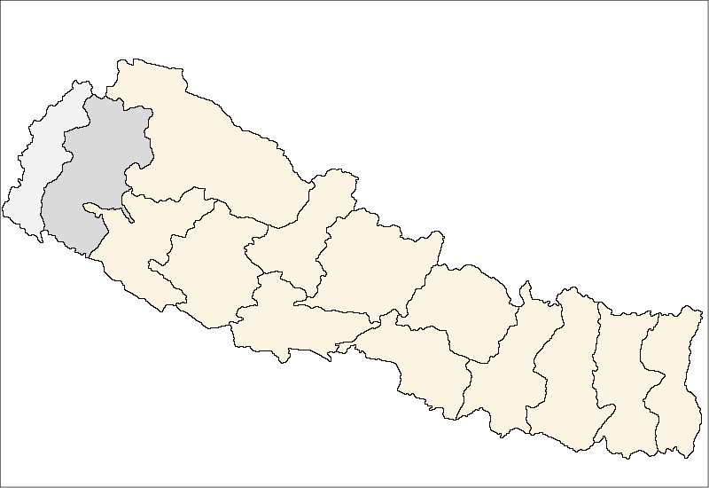 FrenchCarte de localisation de lazone de Seti(wp-FR),au Népal (wp-FR).EnglishLocation map ofSeti Zone(wp-EN),in Nepal (wp-EN).